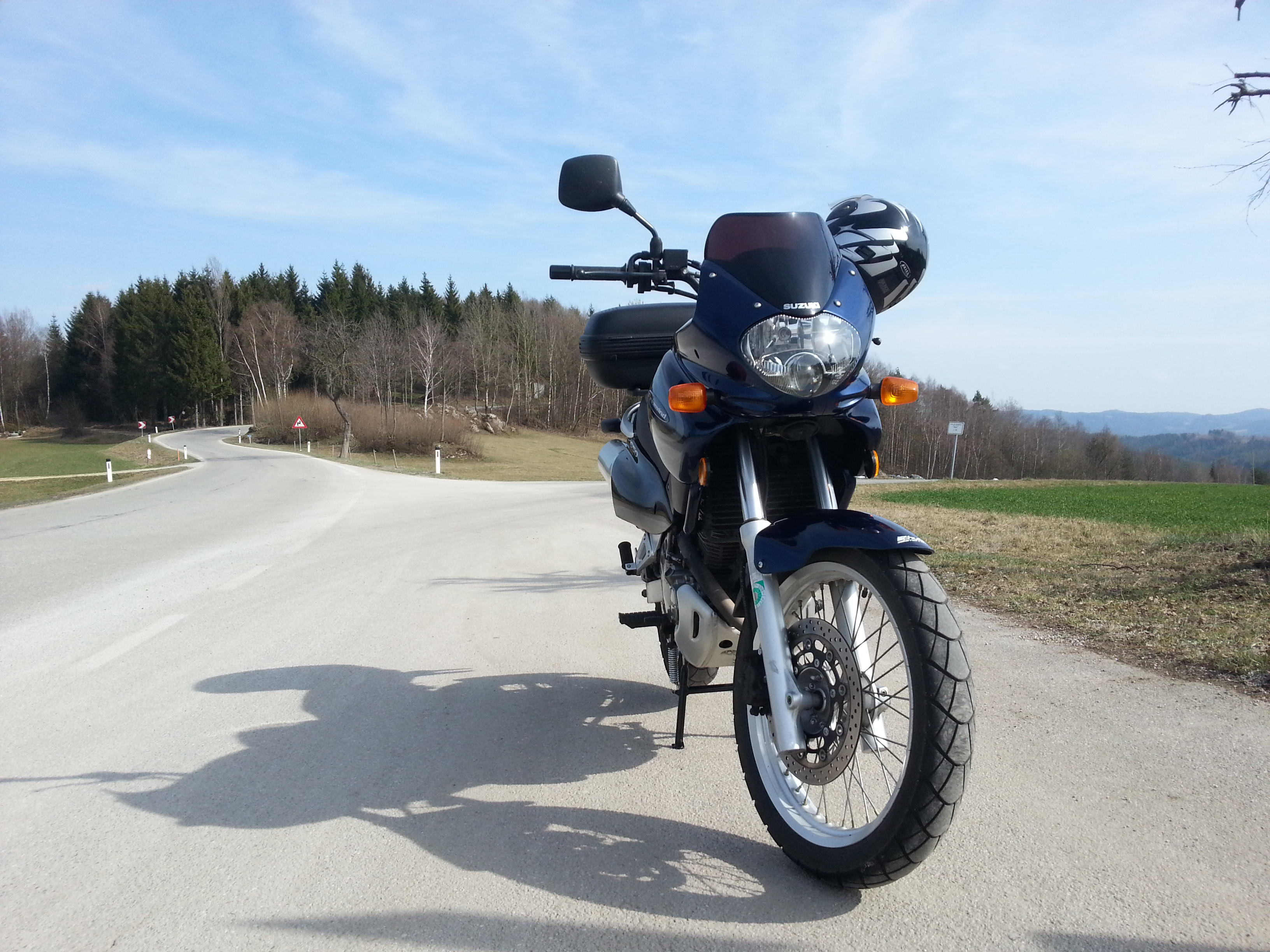 Suzuki XF650 Freewind motorcylce (facelift model)